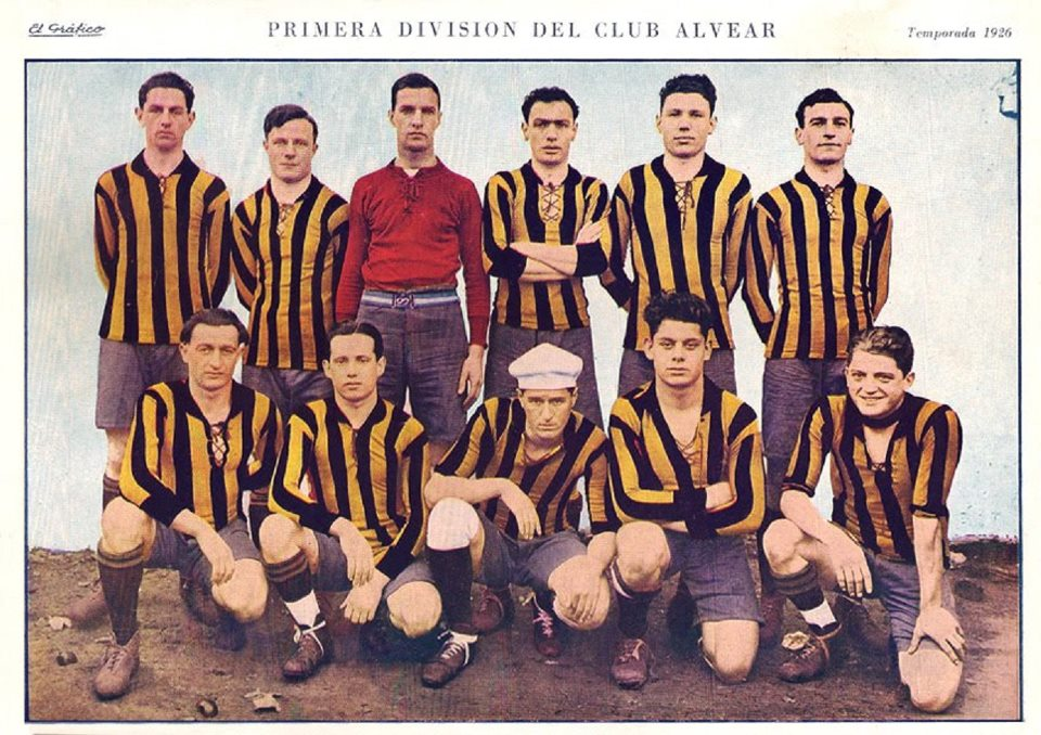 Team of C.A. Alvear, a defunct football club in Argentina.